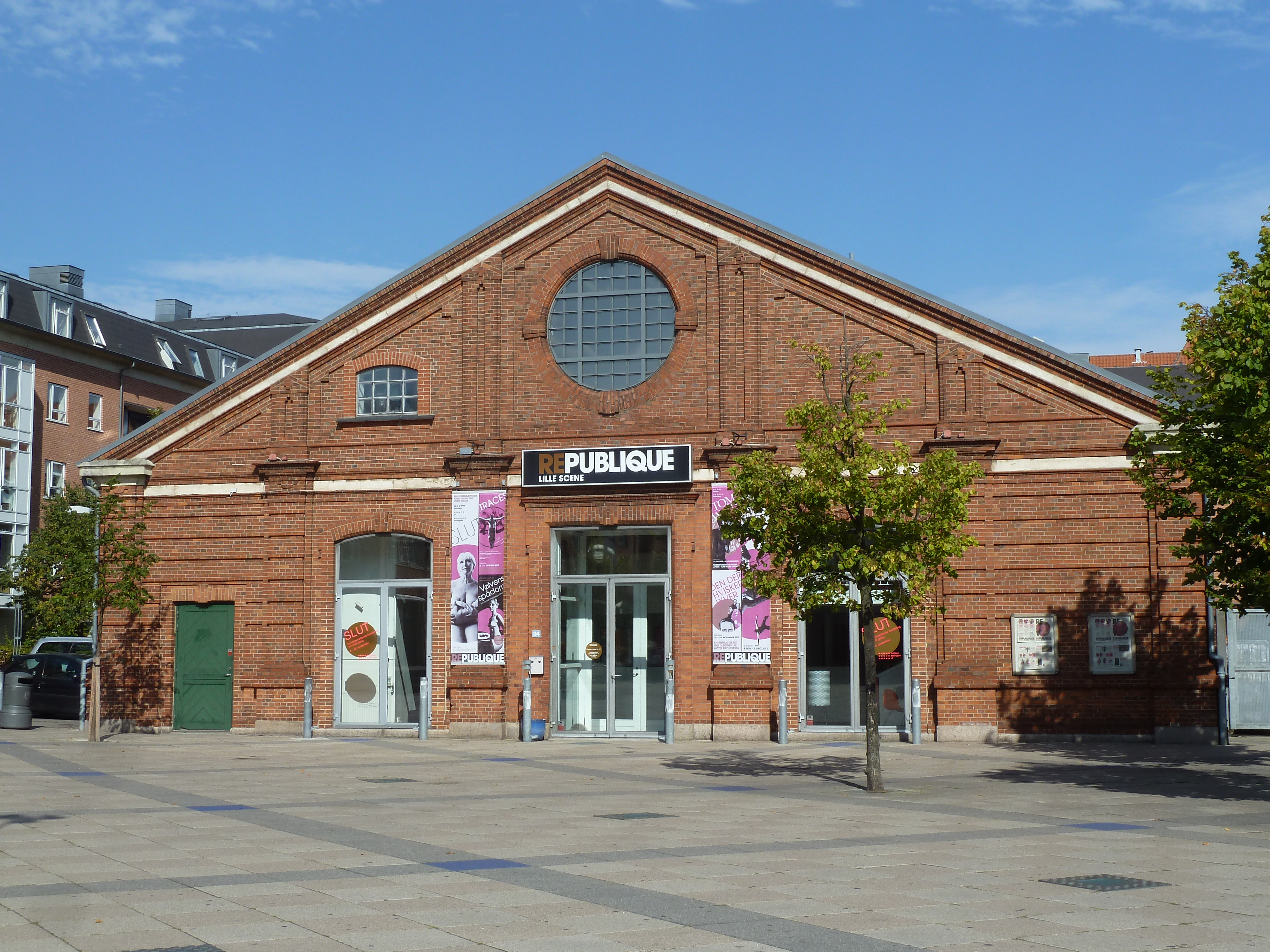 One of the two stages (Lille Scene) of Teater Republique in the Østerfælled Torv development of the Østerbro district of Copenhagen, Denmark